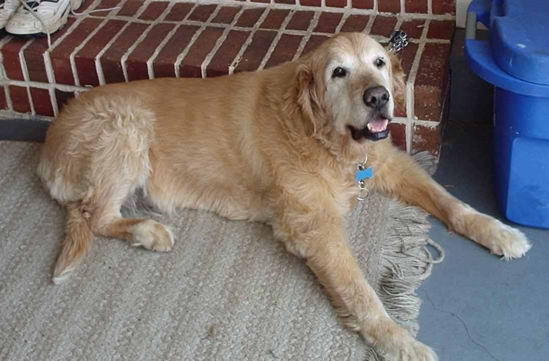 A 15 year old Golden Retriever dog, unusually old for a larger breed such as Golden Retriever. The dog's name is Spencer.